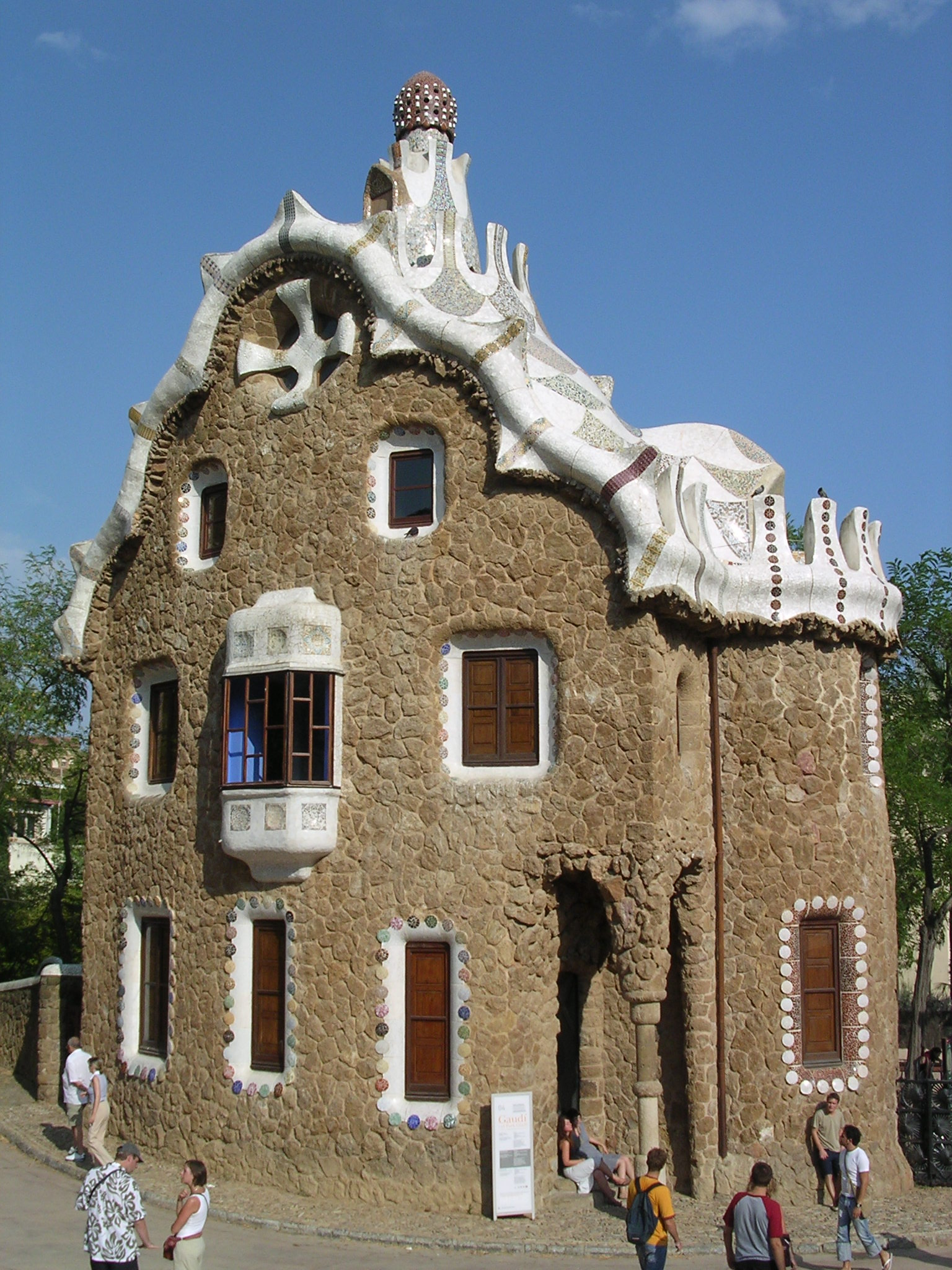 Barcelona, Spain